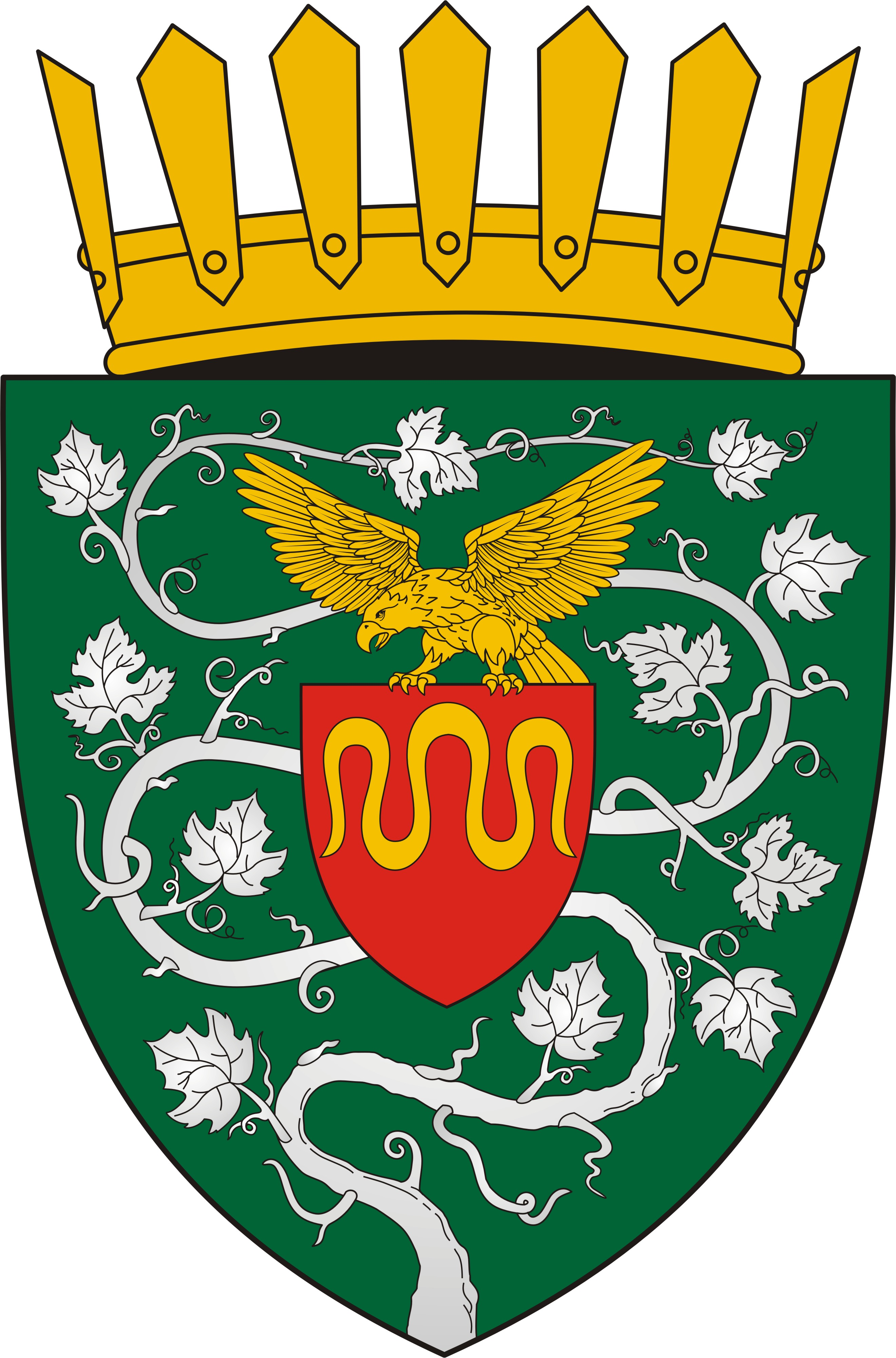 Coat of arms of Lozova, Strășeni